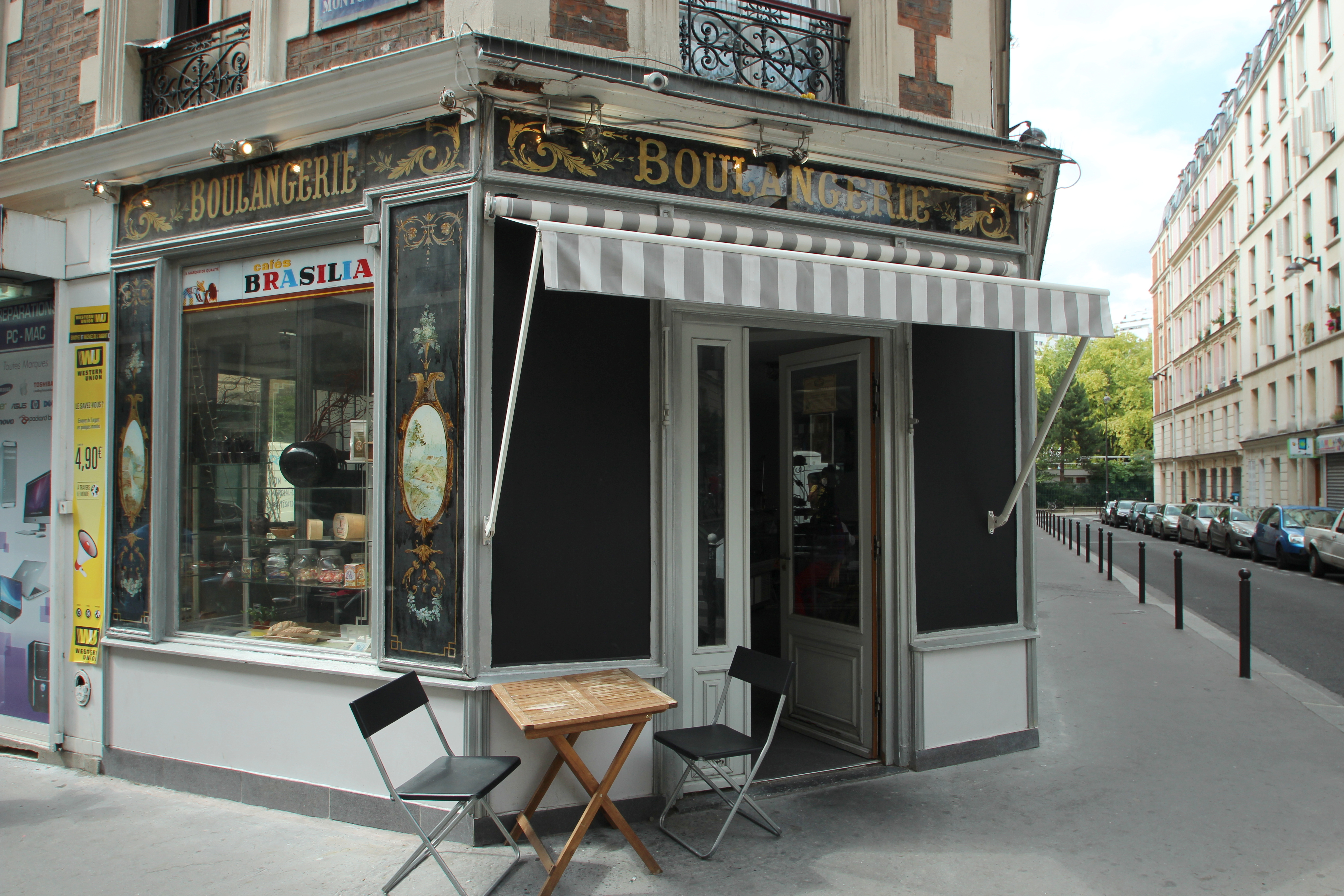 Bakery located 19 Montgallet street in Paris, France. . Object location48° 50′ 36.74″ N, 2° 23′ 15.36″ E